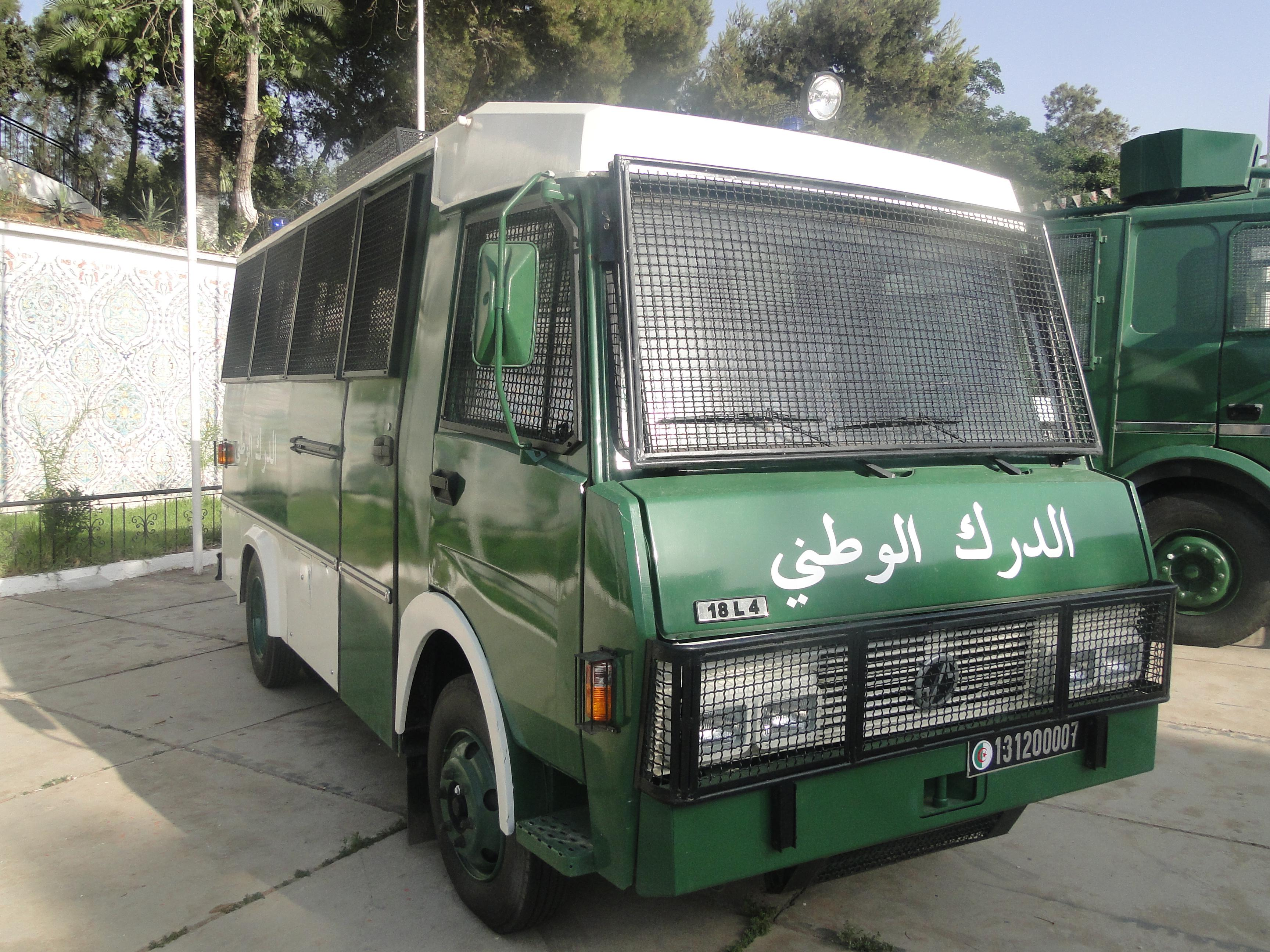 Algerian armored van